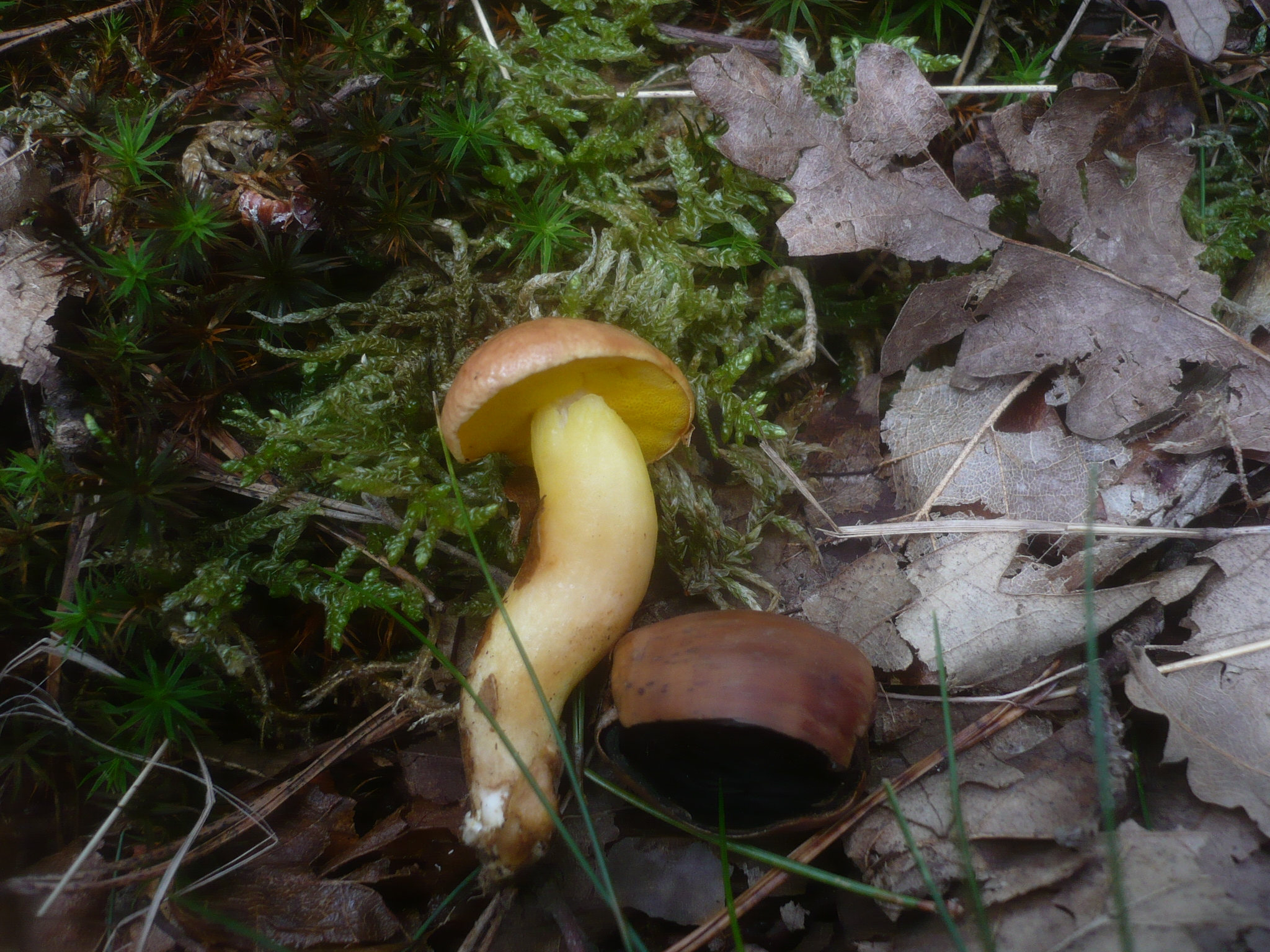 Aureoboletus gentilis (Secretan)Wallroth